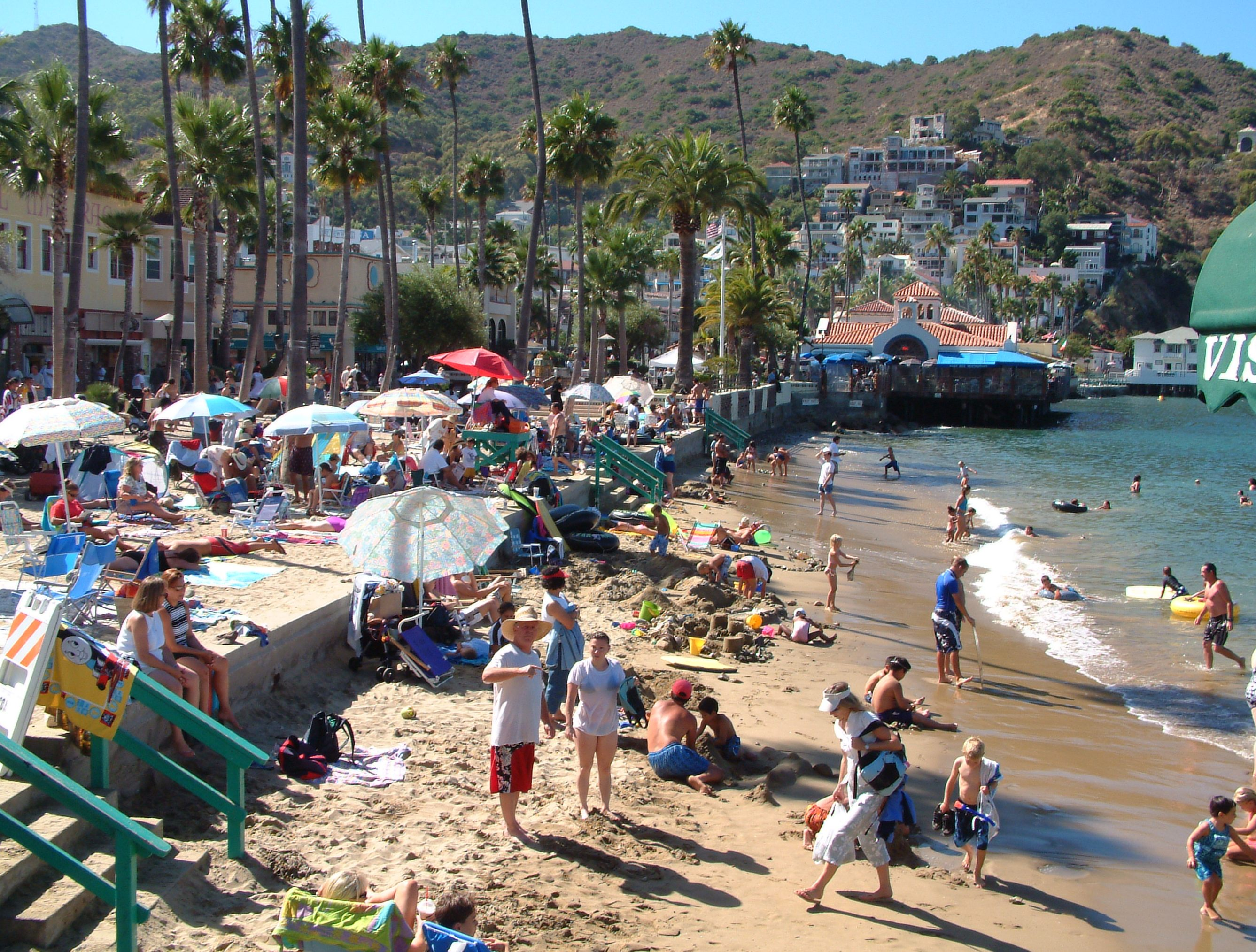 Crowded summertime beach in Avalon, Santa Catalina Island, California, United States